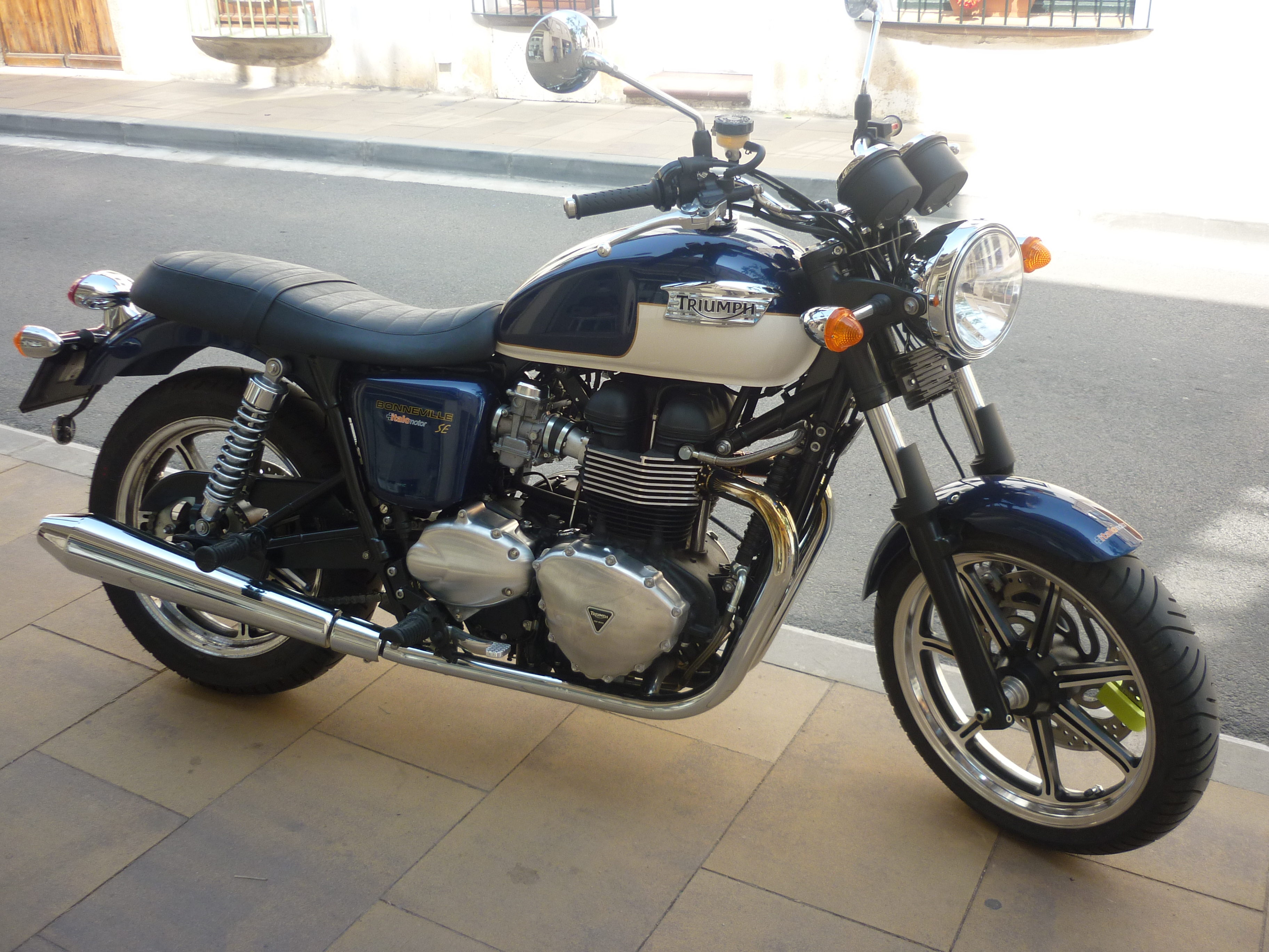 A Triumph Bonneville SE 865cc parked on the street in Vilassar de Mar (Catalonia).